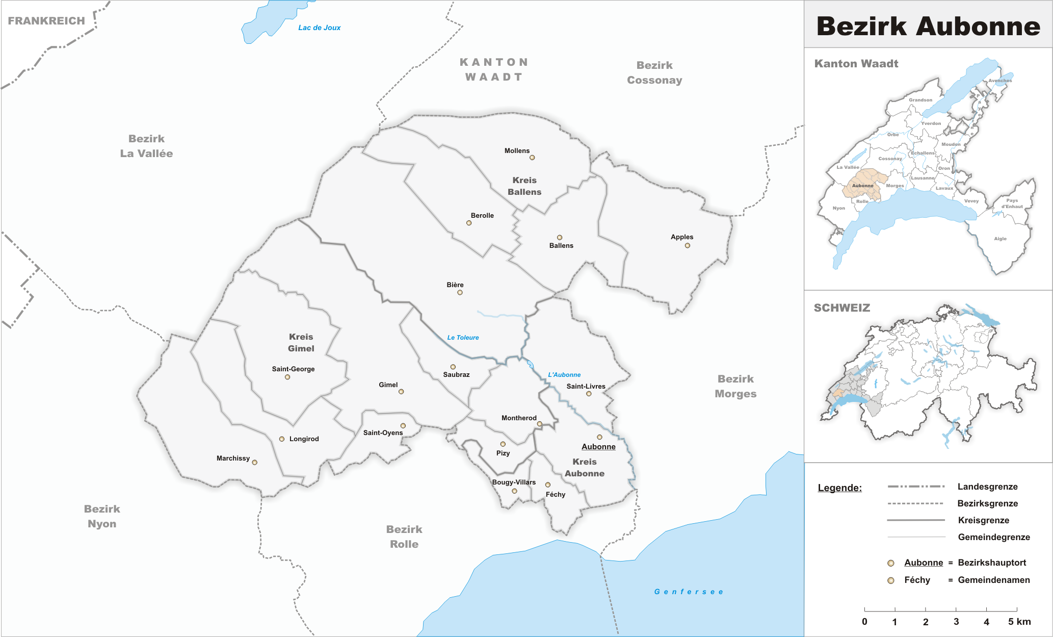 Municipalities in the district of Aubonne